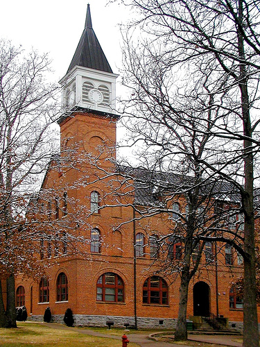 Seminary Hall at NSU in Tahlequah, Oklahoma in winter time.